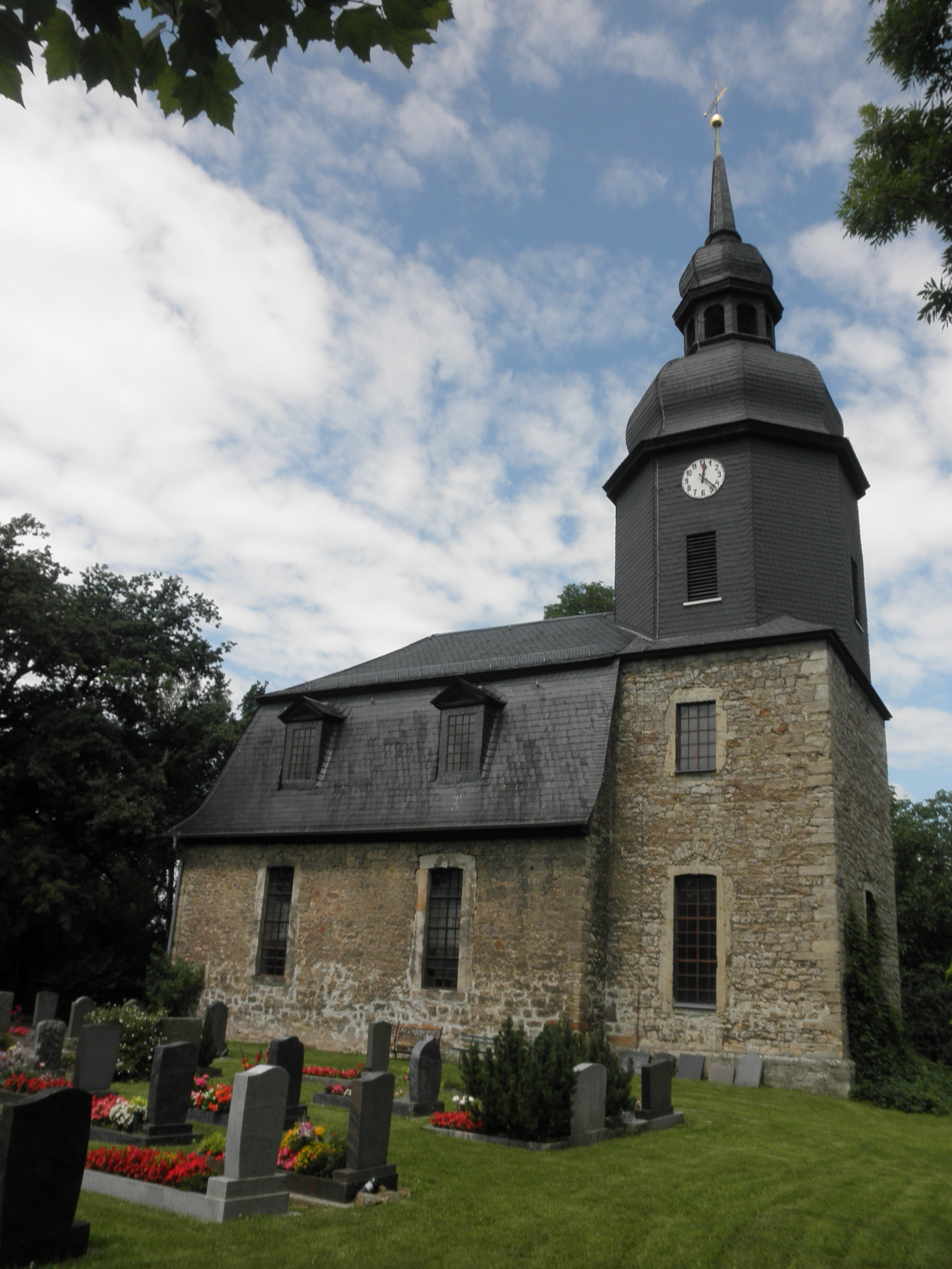 Church in Pfuhlsborn (Saaleplatte) in Thuringia